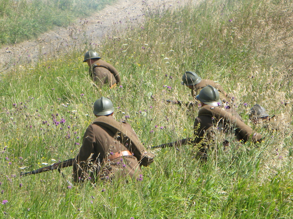 Historical reenactment of Łomża defence during Polish-Soviet War (1920) - Fortifications in Piątnica